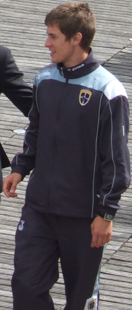 Aaron Ramsey. Image cropped from original at flickr.